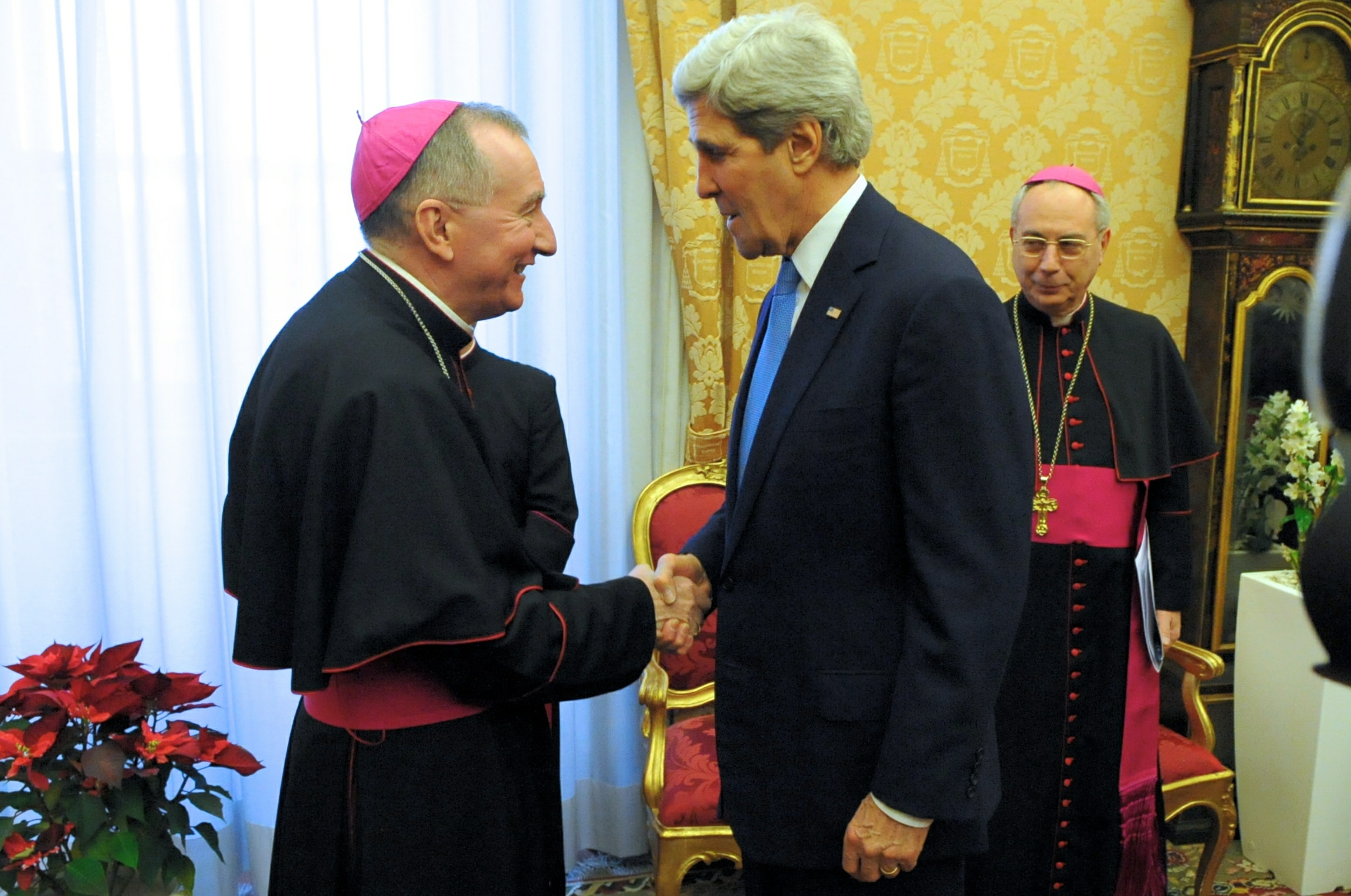 U.S. Secretary of State John Kerry shakes hands with Vatican Secretary of State Pietro Parolin before a meeting in Vatican City on January 14, 2014. [State Department photo/ Public Domain]